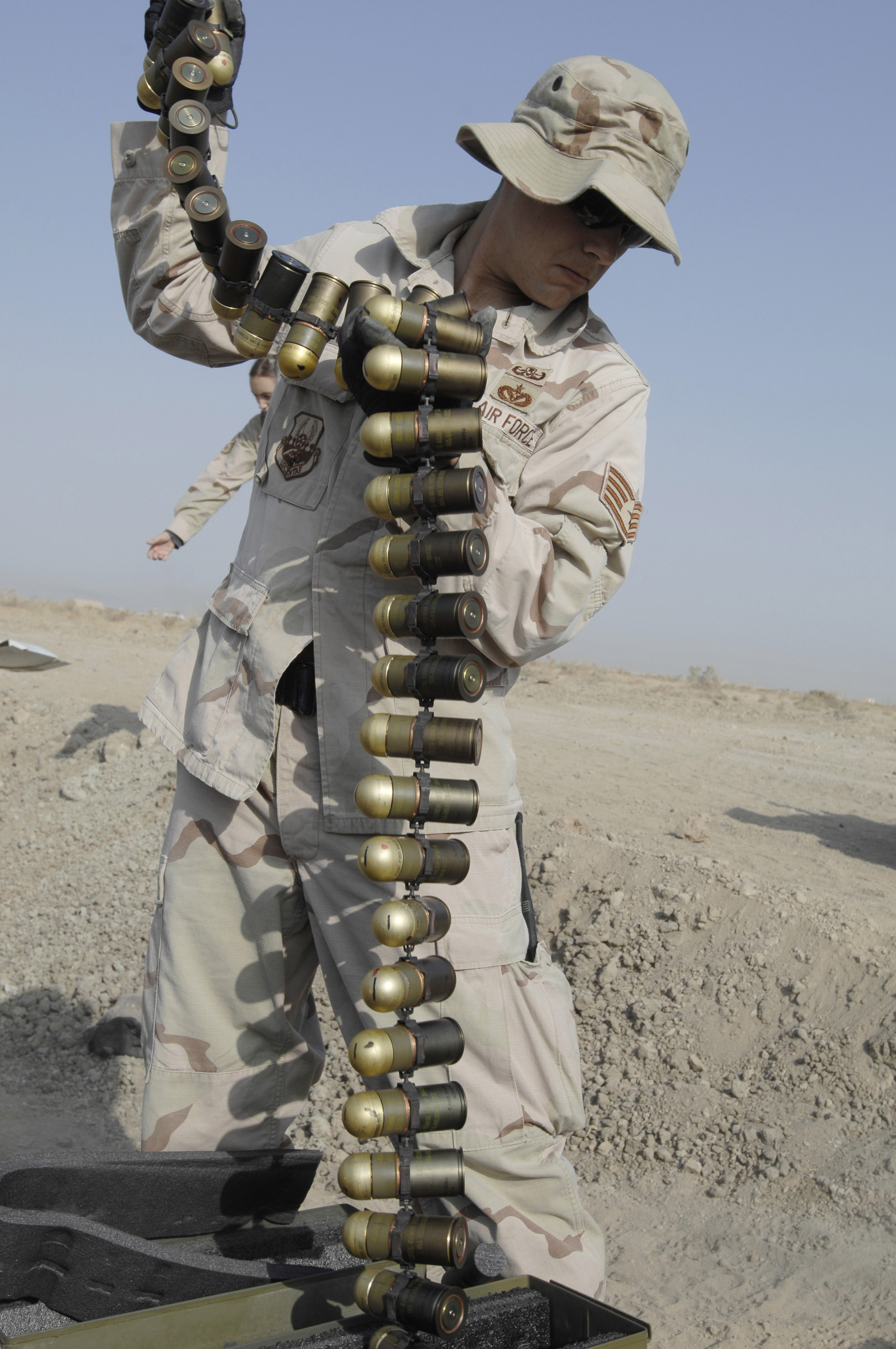 U.S. Air Force Staff Sgt. Anthony Pousen picks up M-430 High Explosive dual-purpose grenade rounds from their case on Ali Air Base, Iraq, on Nov. 14, 2007. Airmen of the 407th Expeditionary Civil Engineer Squadron explosive ordnance disposal team unloaded nearly 1,800 pounds of expired munitions for demolition to ensure they will not be used against U.S. forces.